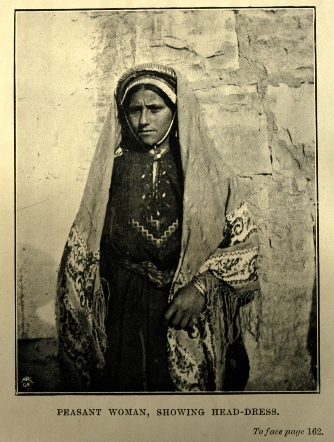 Palestinian woman, circa 1900